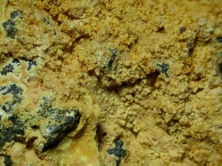 Lesukite Locality: Great Fissure (Main Fracture) eruption, Tolbachik volcano, Kamchatka Oblast', Far-Eastern Region, Russia Yellow crust of Lesukite. Field of view 5 mm. Specimen and photo Leon Hupperichs.